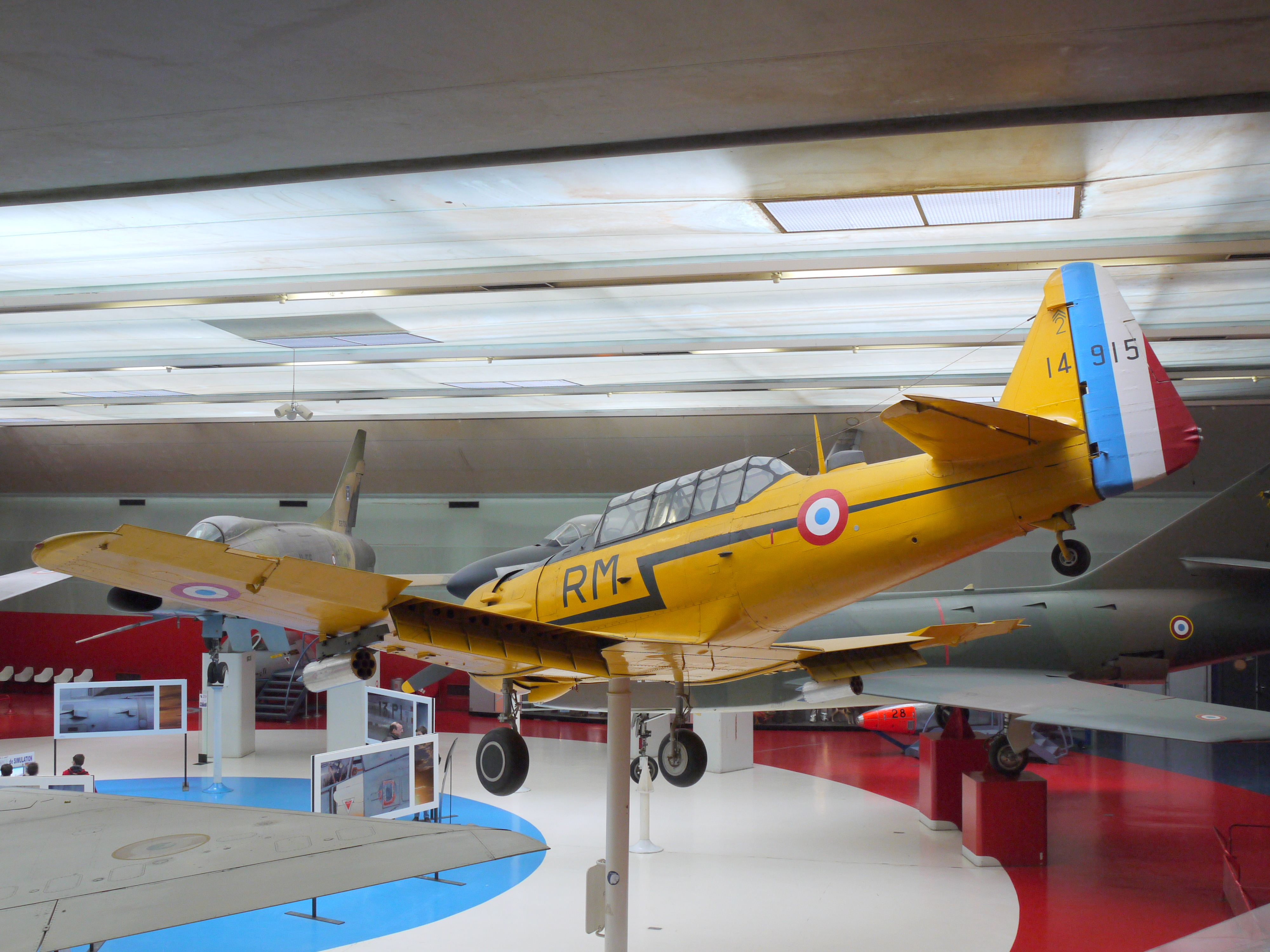 T-6 single-engine advanced trainer aircraft (1937), Museum of Air and Space Paris, Le Bourget (France)